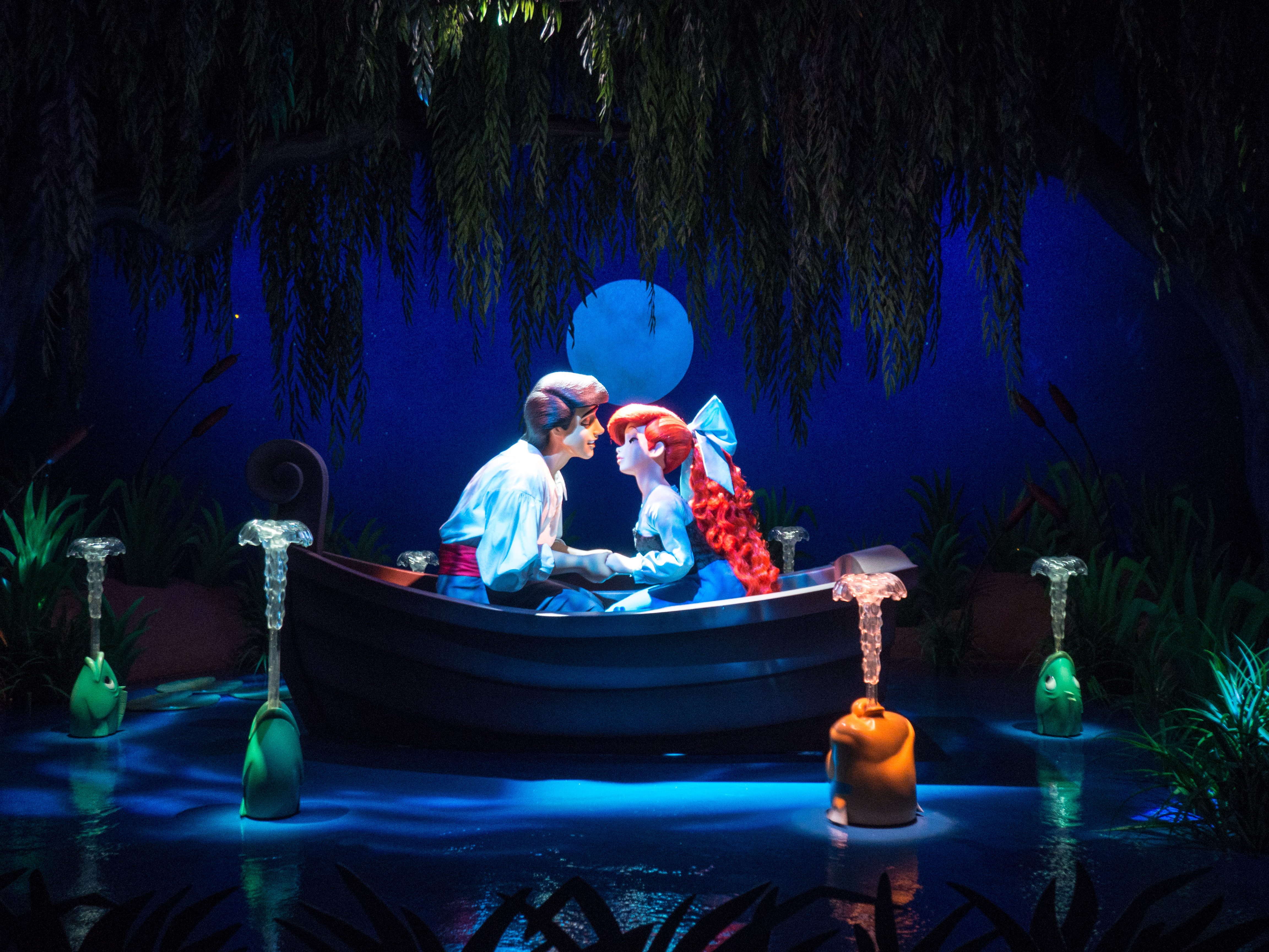 The Little Mermaid ~ Ariel's Undersea Adventure